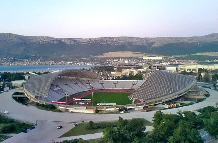 Poljud stadium in Split, Croatia